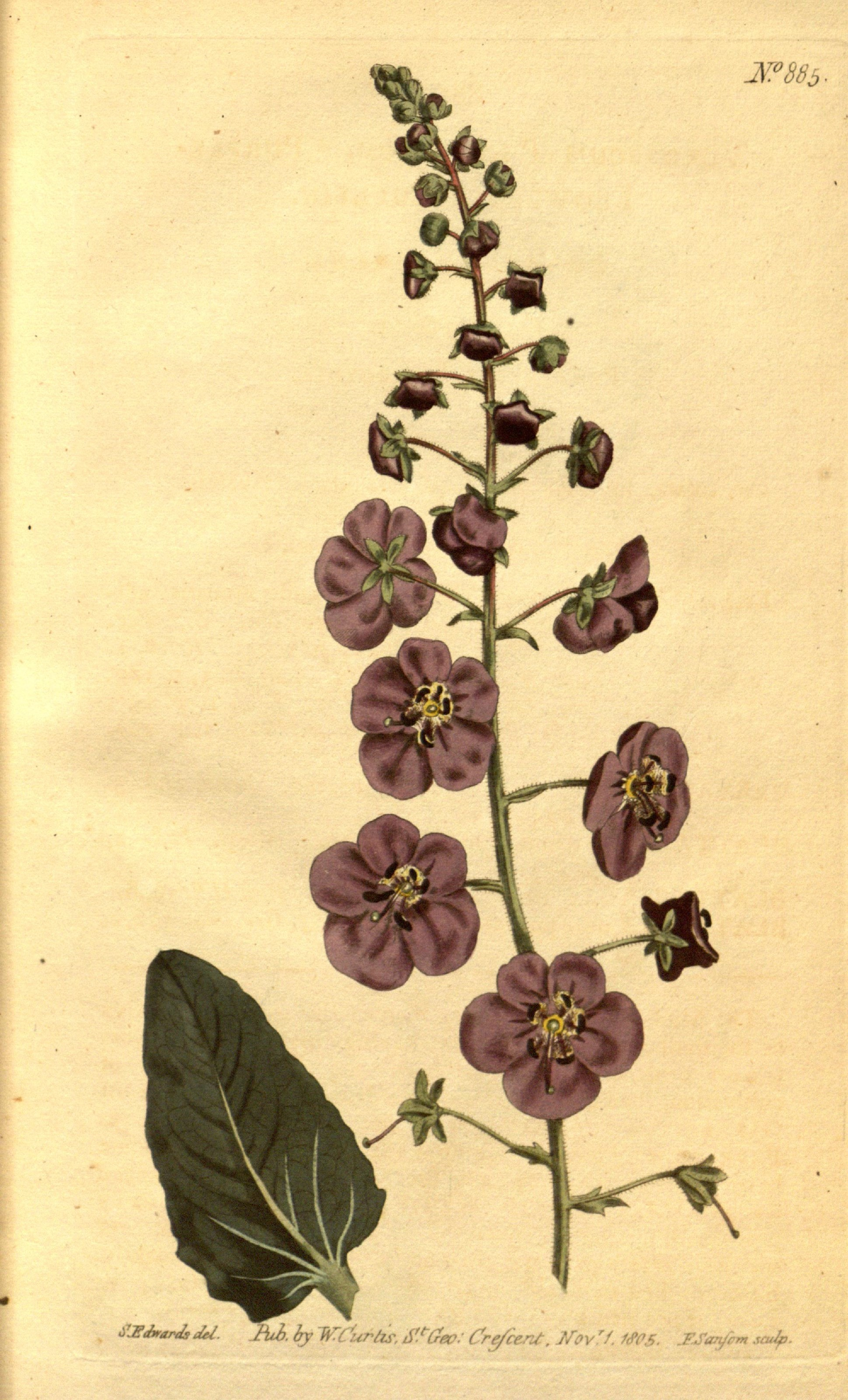 2 W 88: tfJt&Hrdtdtl. Rth.b